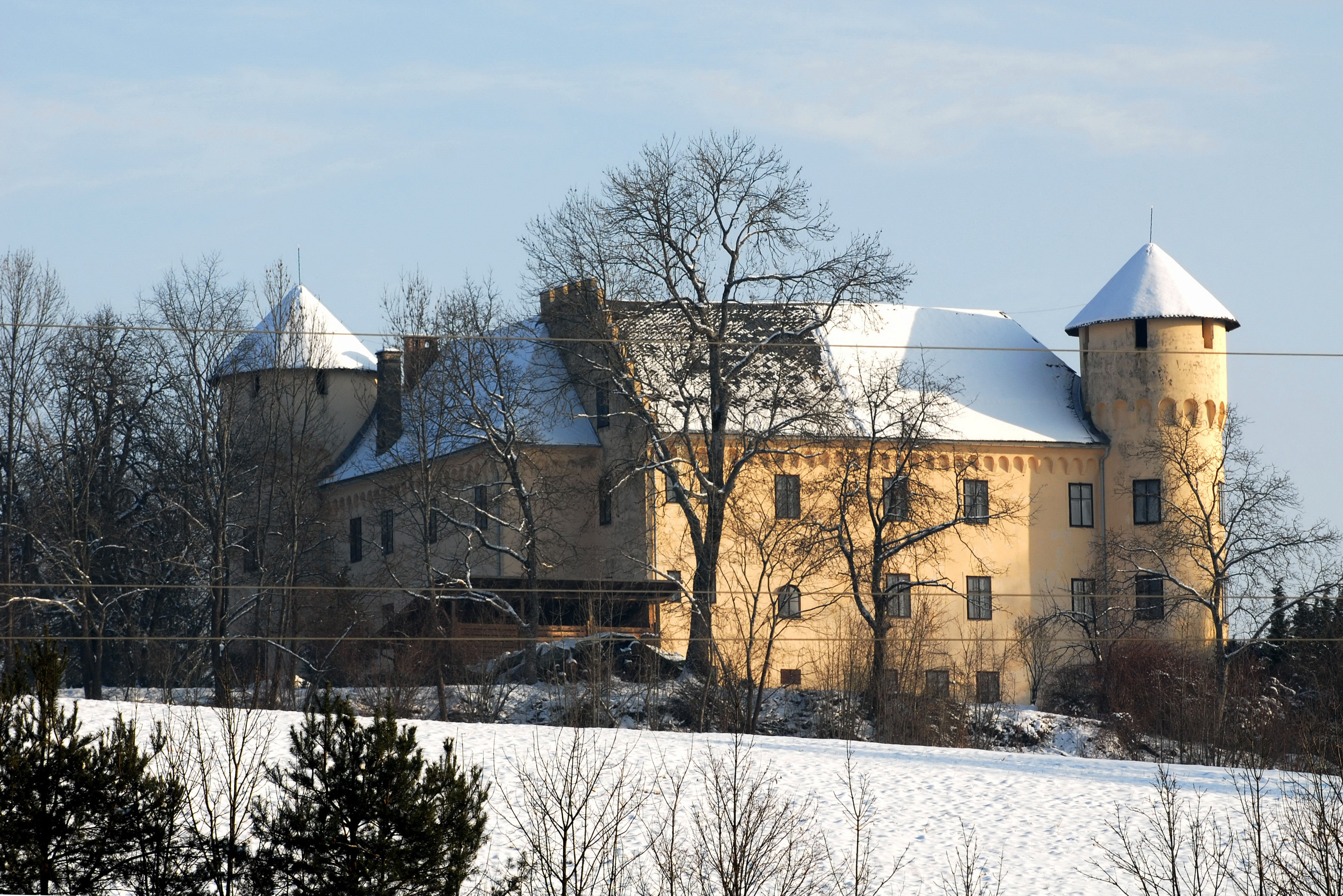 “Castle Tentschach”, situated in the 14th district Woelfnitz of the Carinthian capital Klagenfurt on the Lake Woerth, Carinthia, Austria